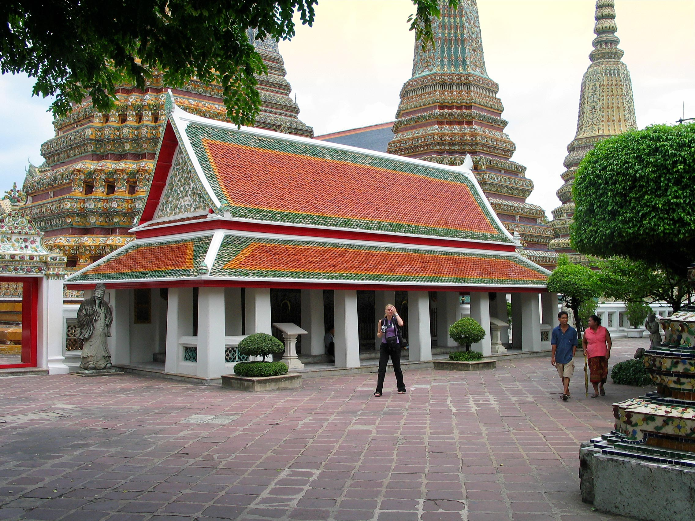 "Medicin Pavillon", Wat Pho, Bangkok, Thailand